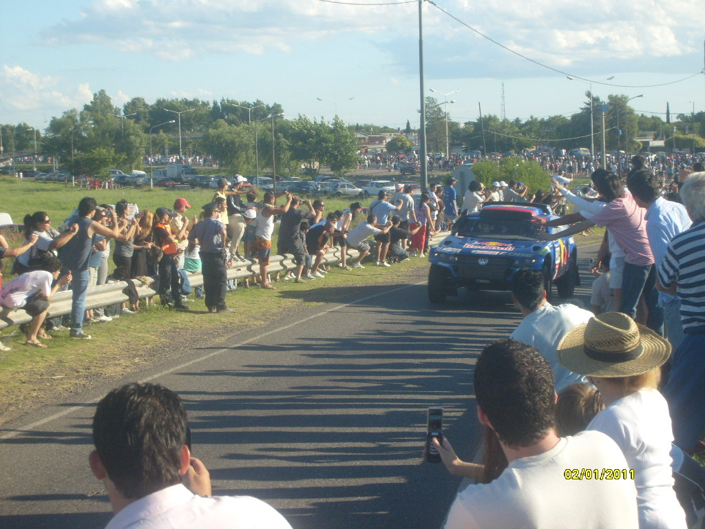 The Volkswagen Race Touareg 3 in Rosario at the 2011 Rally Dakar